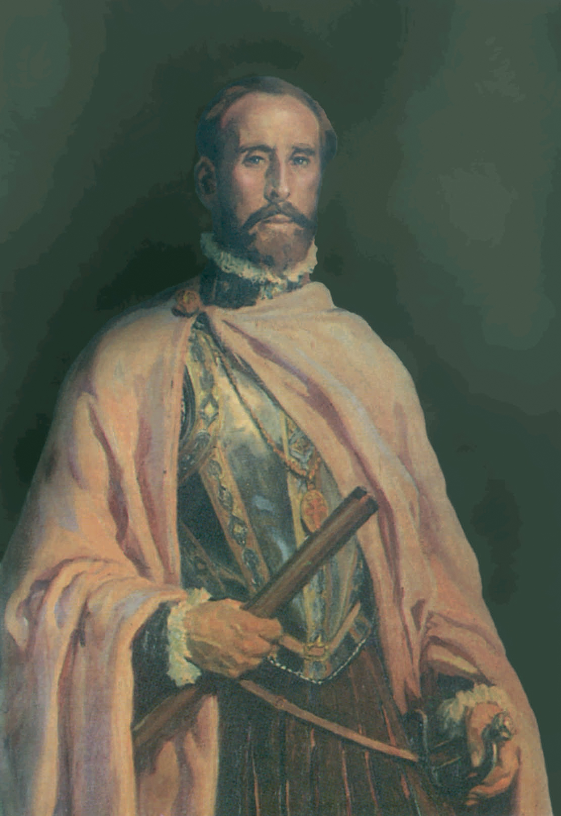 An oil painting of Juan Martinez de Recalde, an admiral during the failed Spanish Armada.